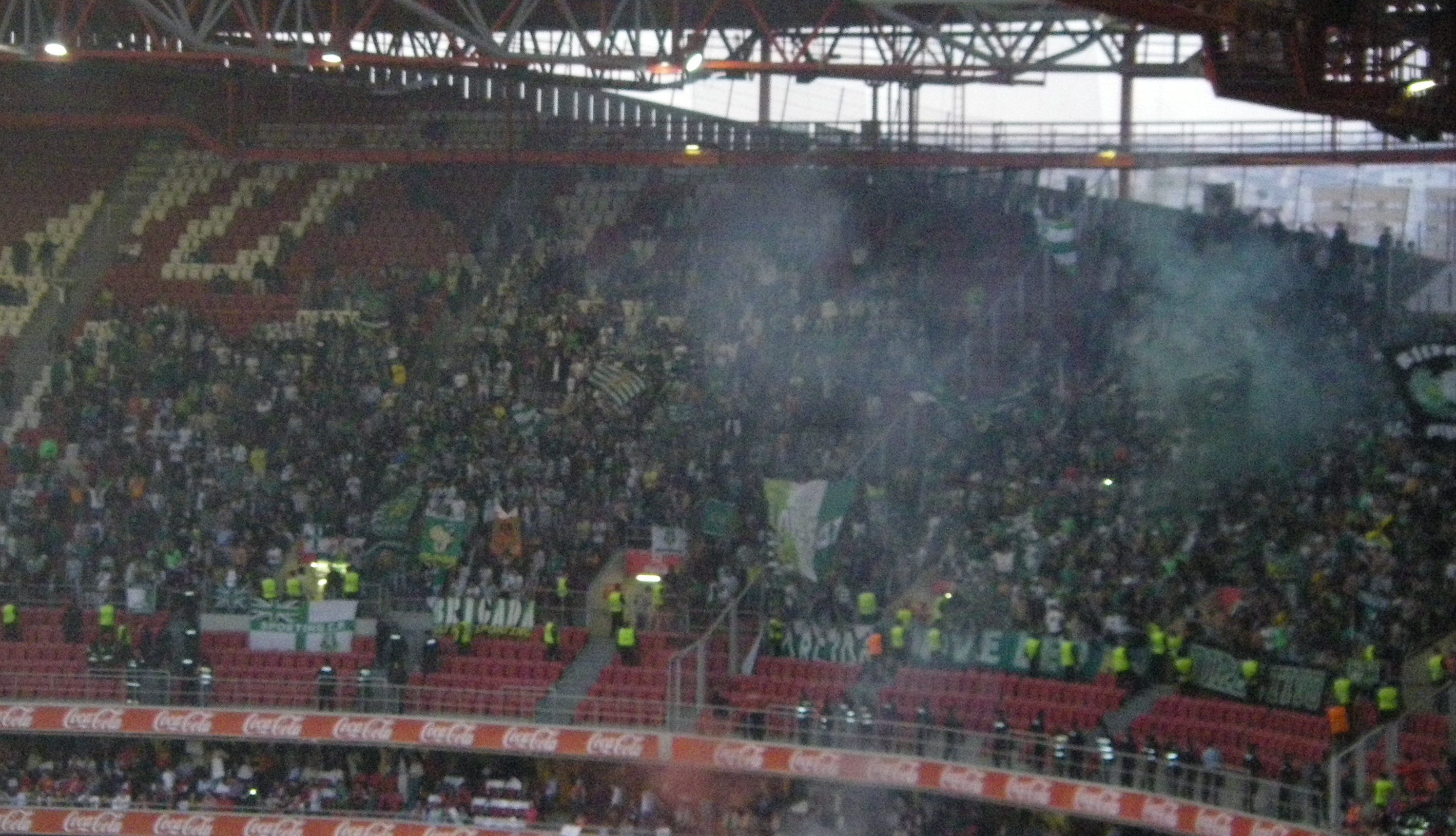 Sporting-fans during Derby de Lisboa on April 21, 2013